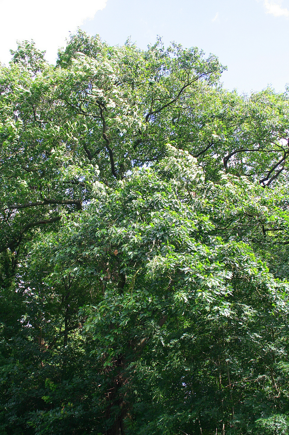 Black oak, Dyer's oak, Spotted oak or, Yellowbark oak